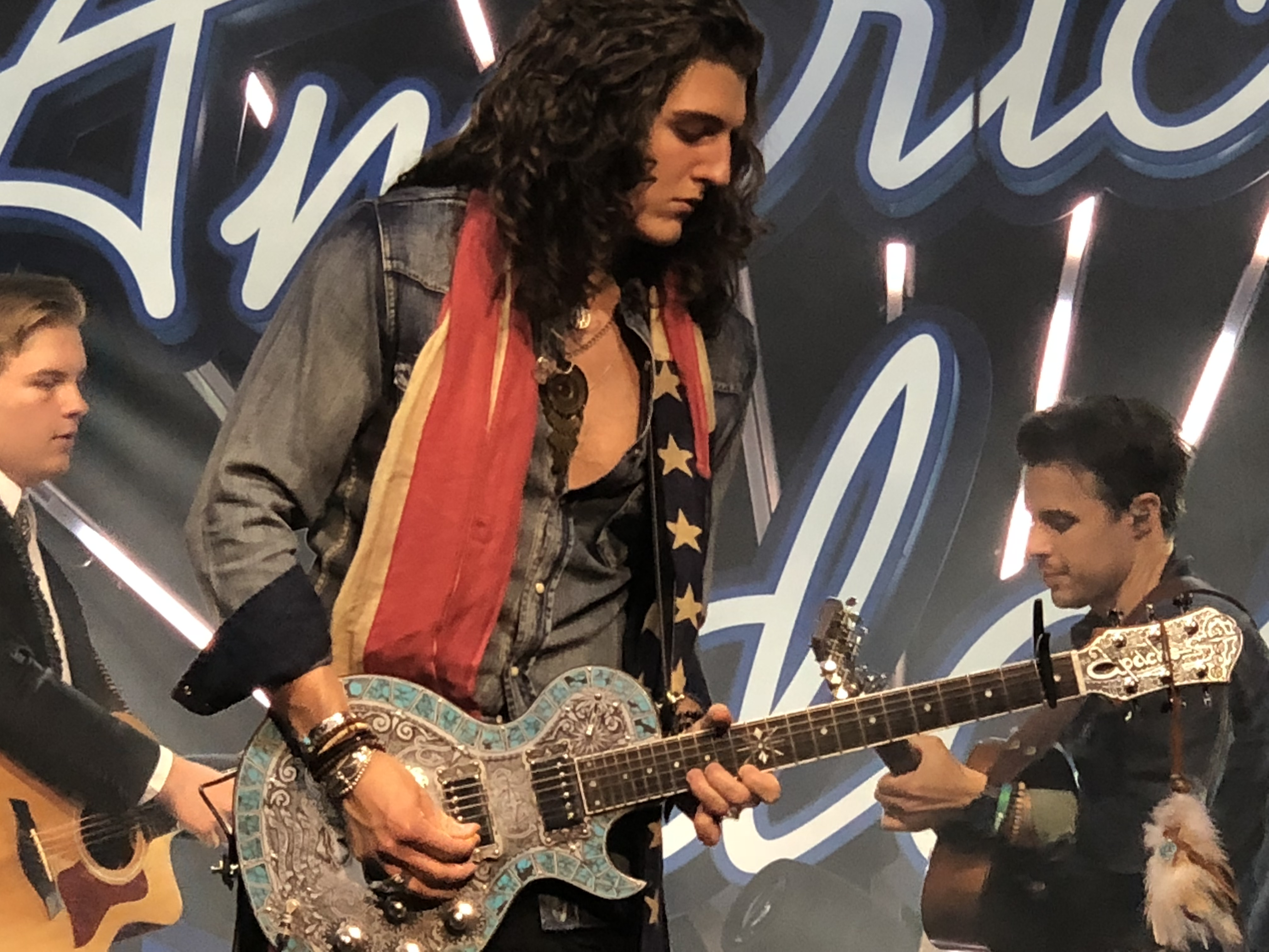 Cade Foehner on American Idol Tour